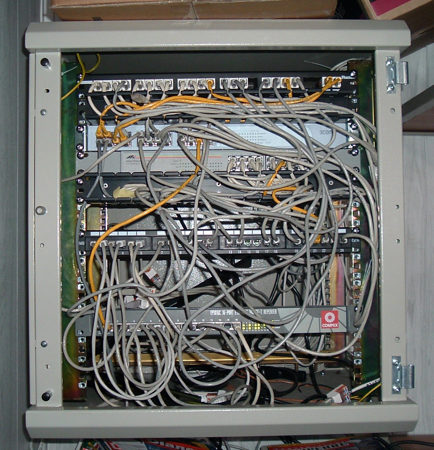 Description: 12U box & 50 ports & 3Com switch & Alied Telesyn switch & Compex hub Date: 18/04/2005 Author: Alexander Chupryna Licence: GFDL